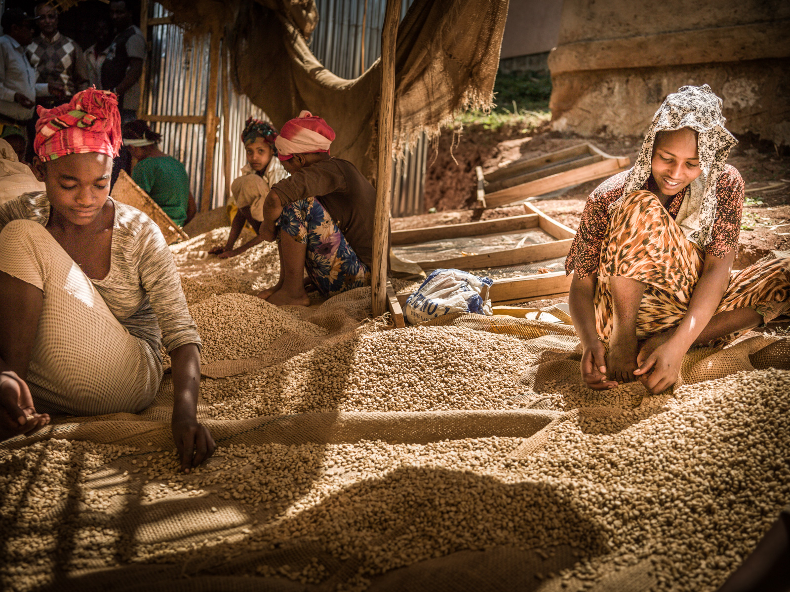 Girls sorting coffee beans, near Hawassa This is an image of "African people at work" from Ethiopia